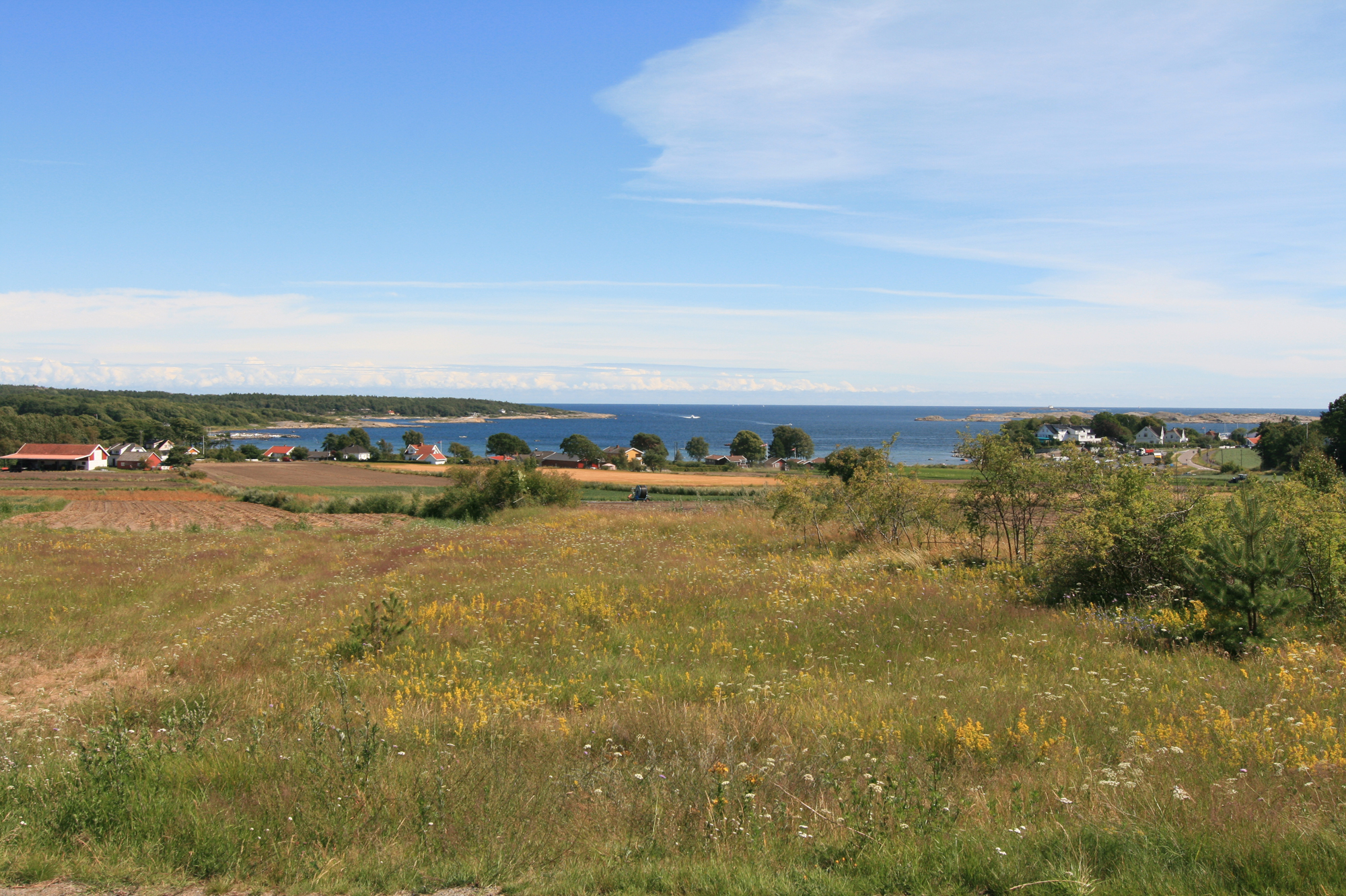 Brunlanes, Larvik, Norway. View on landscape and shore (Omrebukta) close to Nevlunghavn